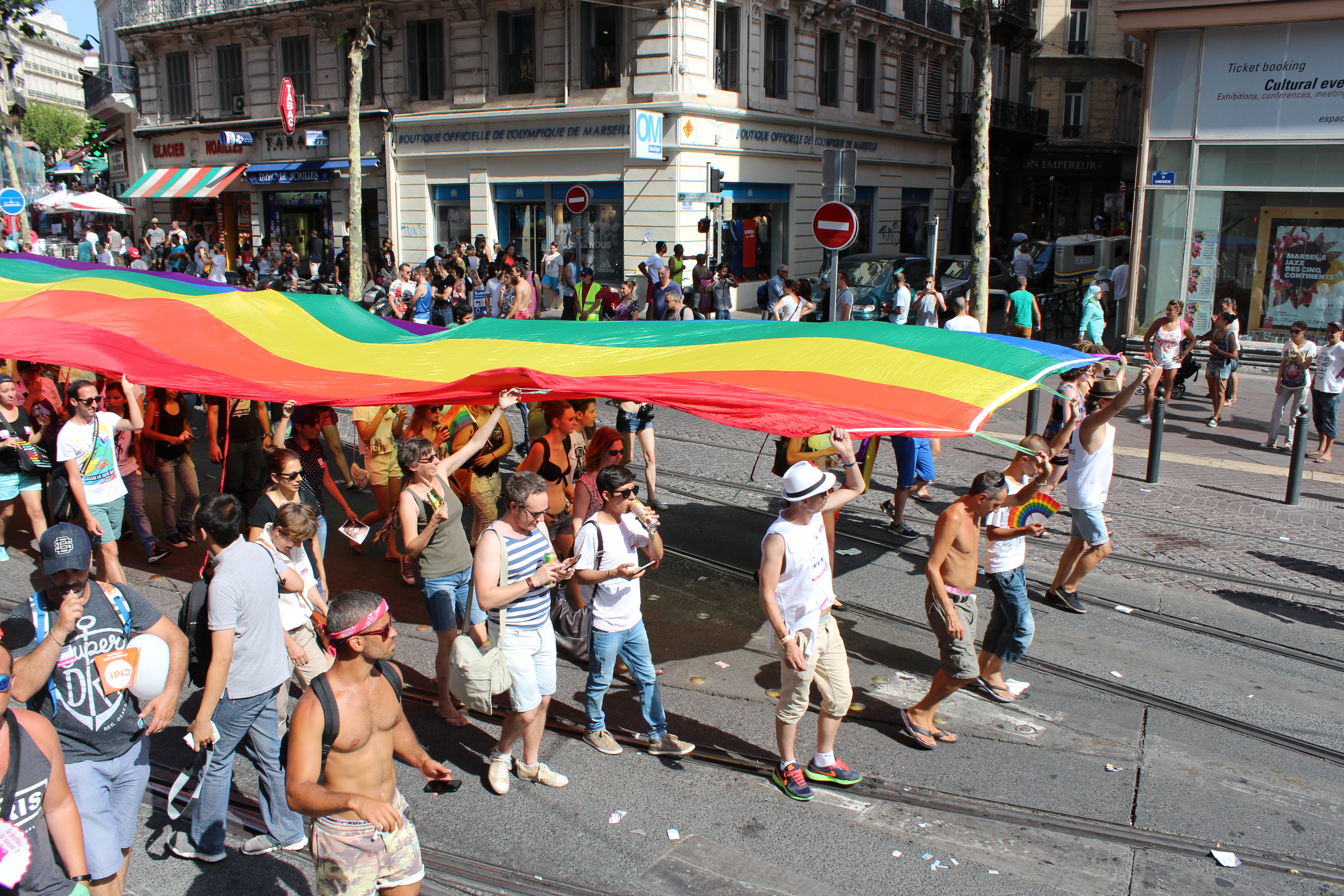 Pride Marseille, July 4, 2015. Photo by Lee Bob Black.